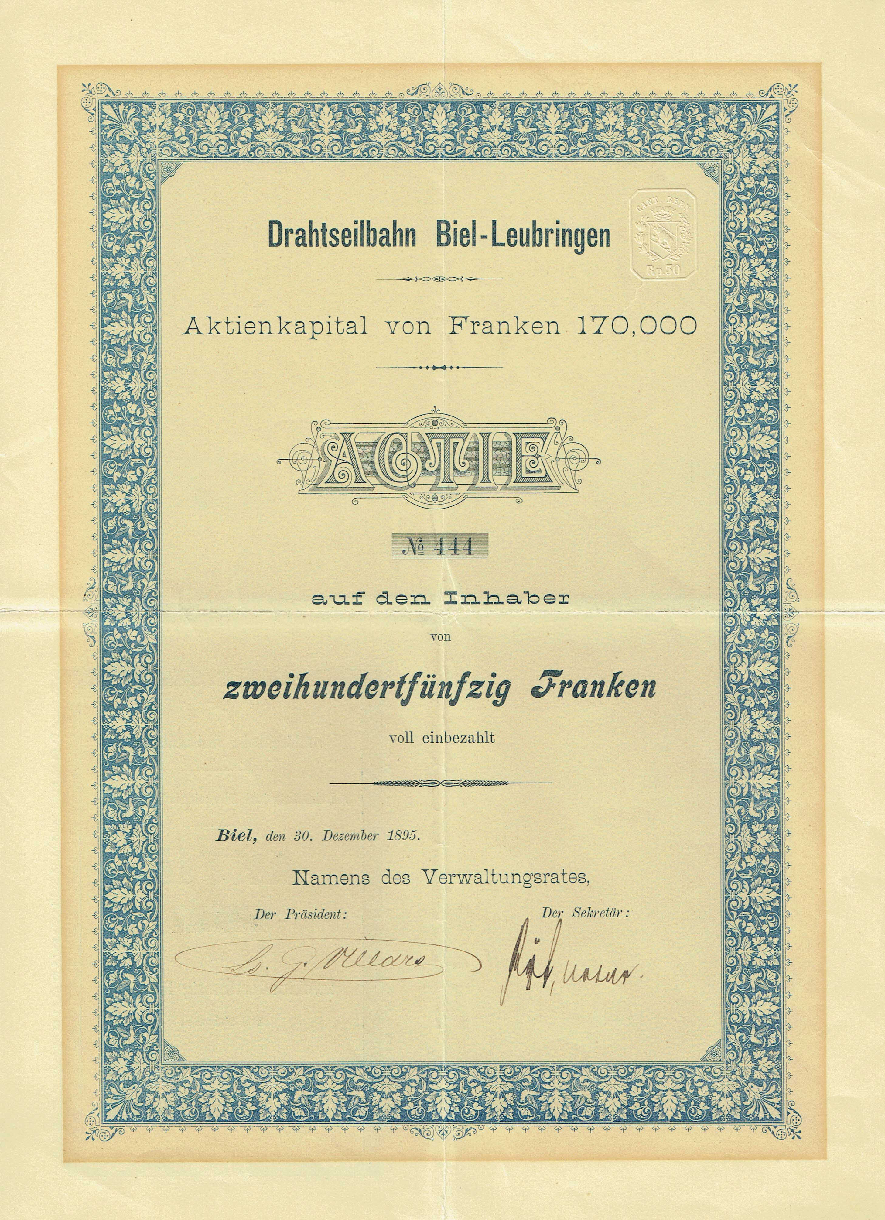 Share of the Drahtseilbahn Biel-Leubringen, issued 30. December 1895